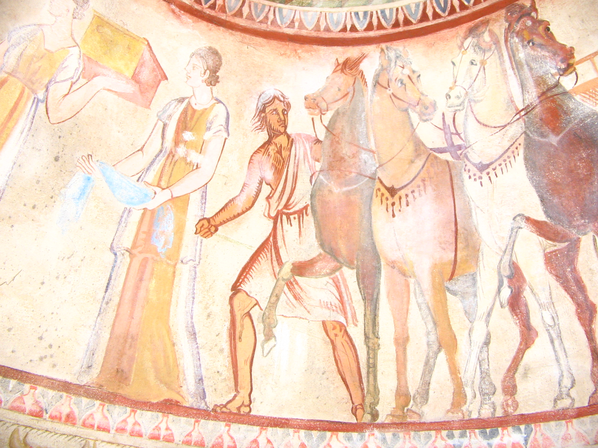 Scene of the frescoes in the thracian tomb near Kazanlak, Bulgaria